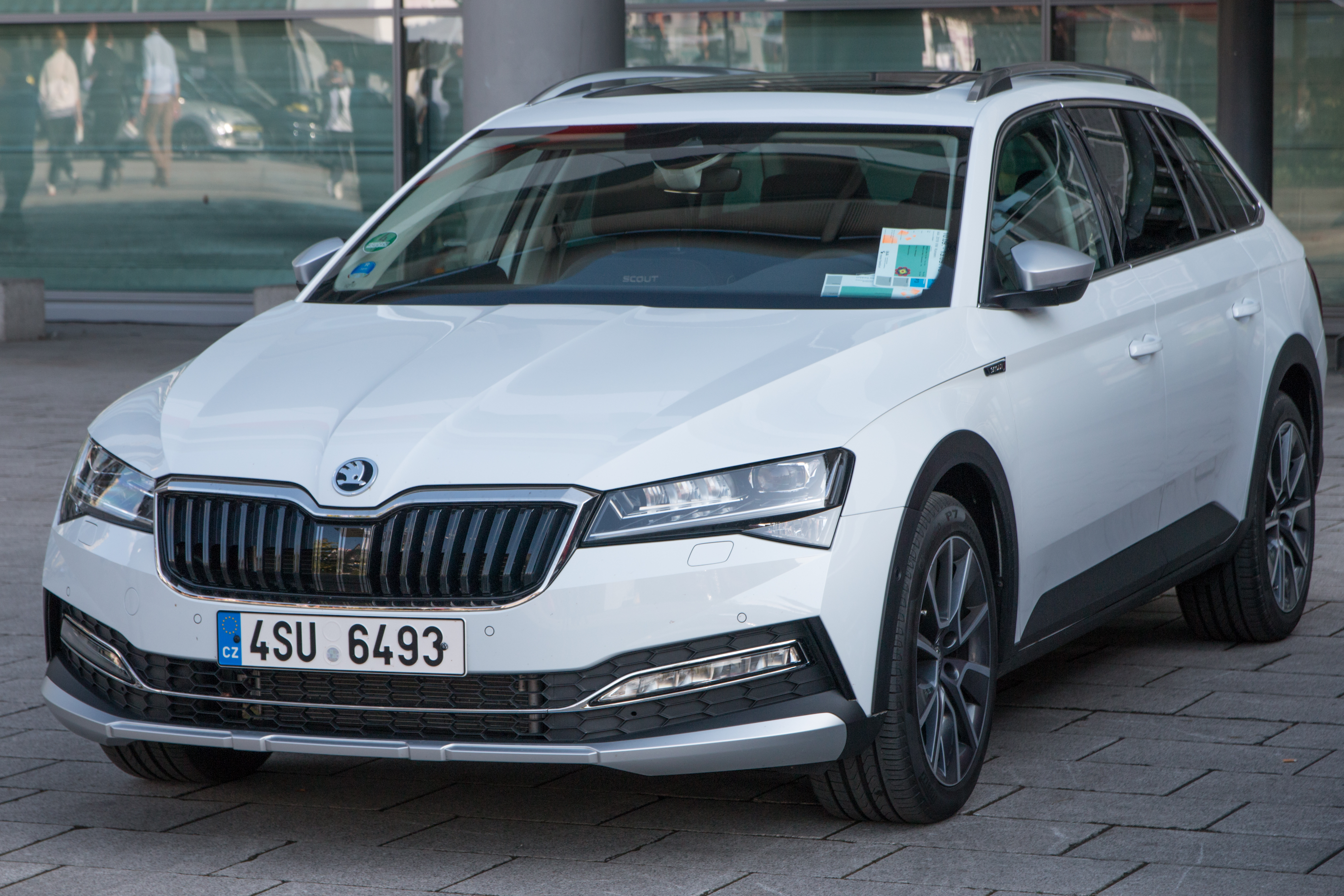 Škoda Superb III Scout